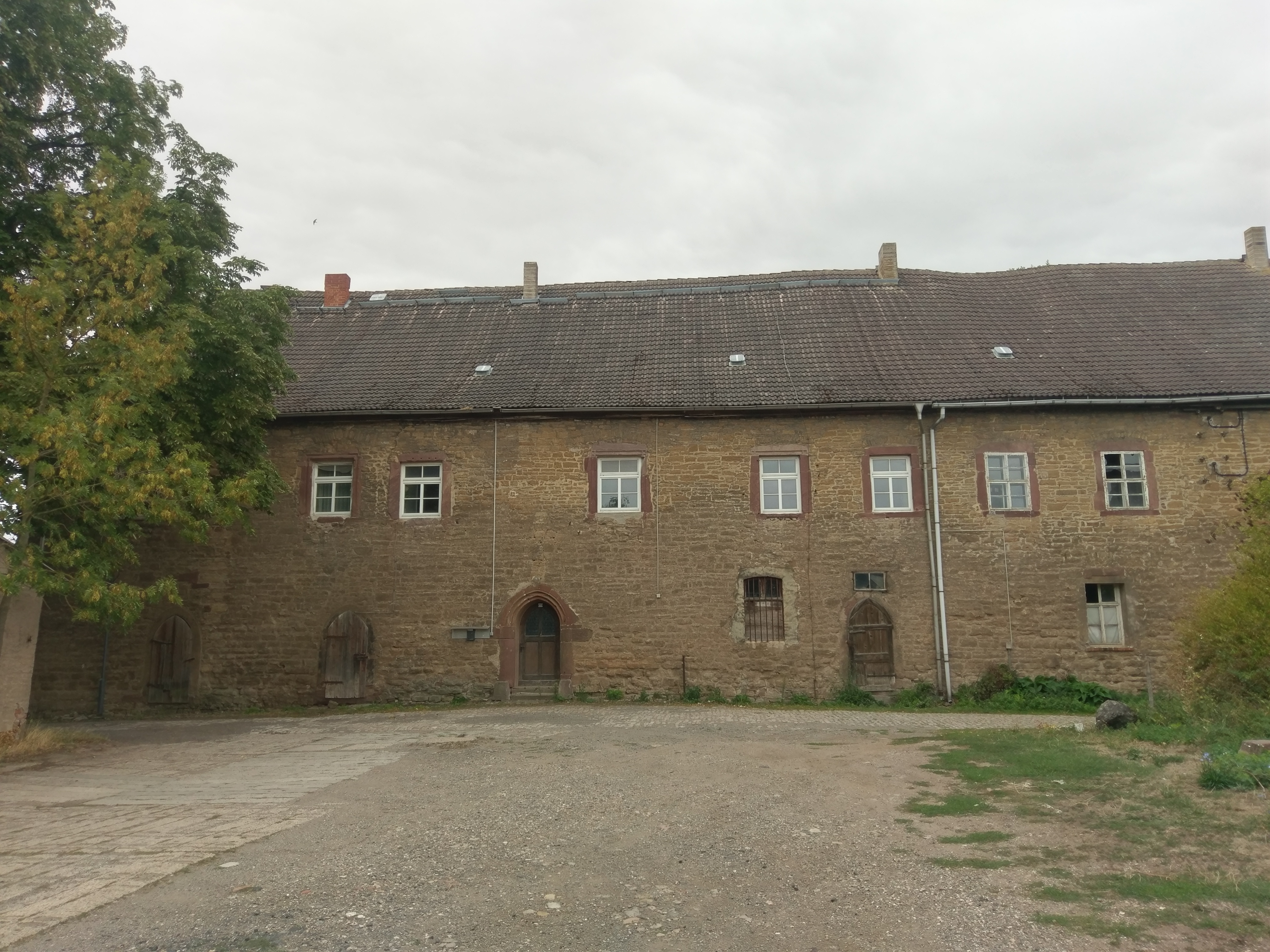 The foto shows the view from north to the front of the Castle. Visible are the pointed gothic door arches. The castle was owned by the family von Werthern from 1501-1945. Currently the manor house is vacant.